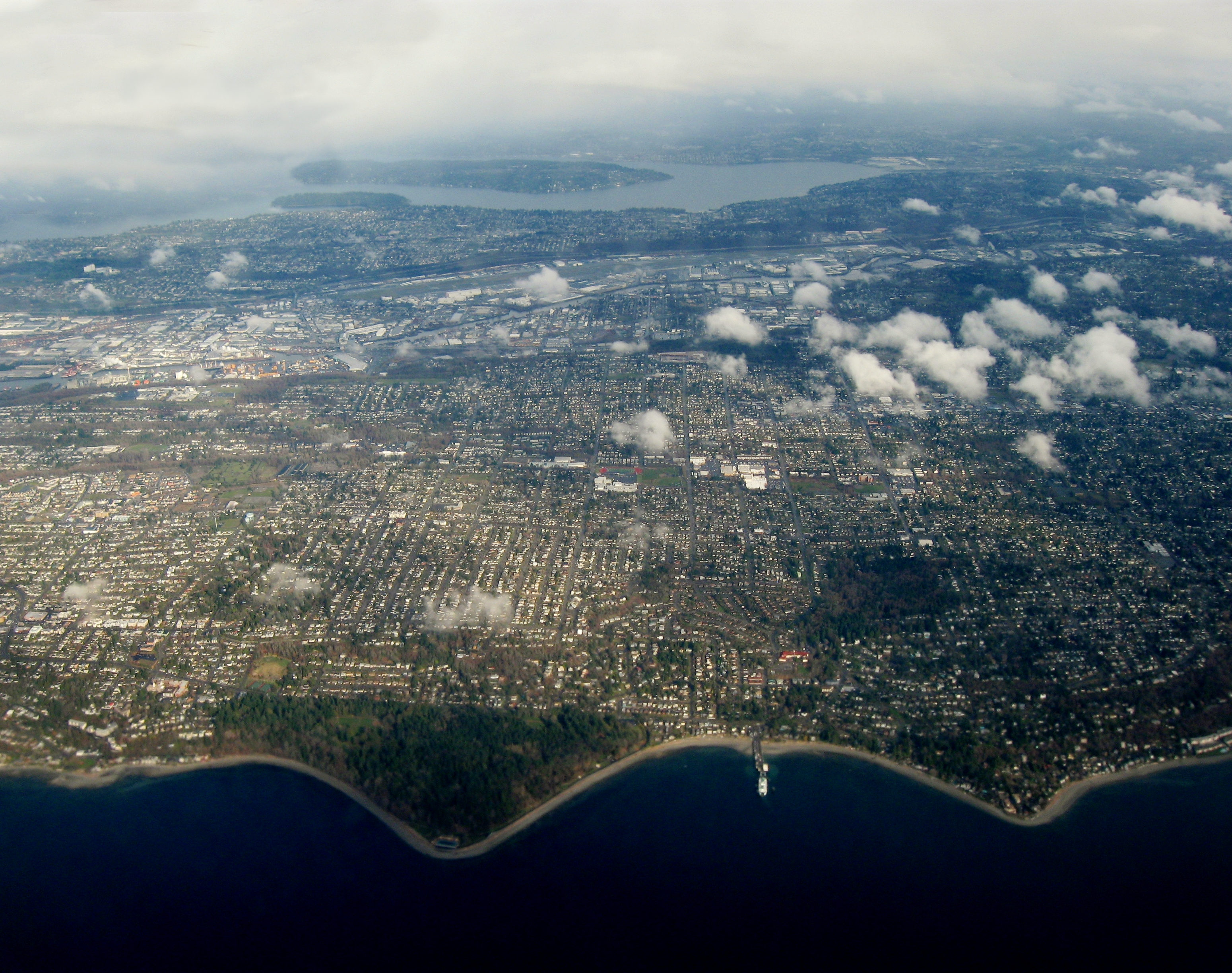 Aerial view of Lincoln Park (the forested point) and Fauntleroy, near Seattle. Lake Washington, Seward Park, and Mercer Island are visible in the distance near the top. Lincoln Park is the forested point. The small port is the ferry to Southworth and Vashon.